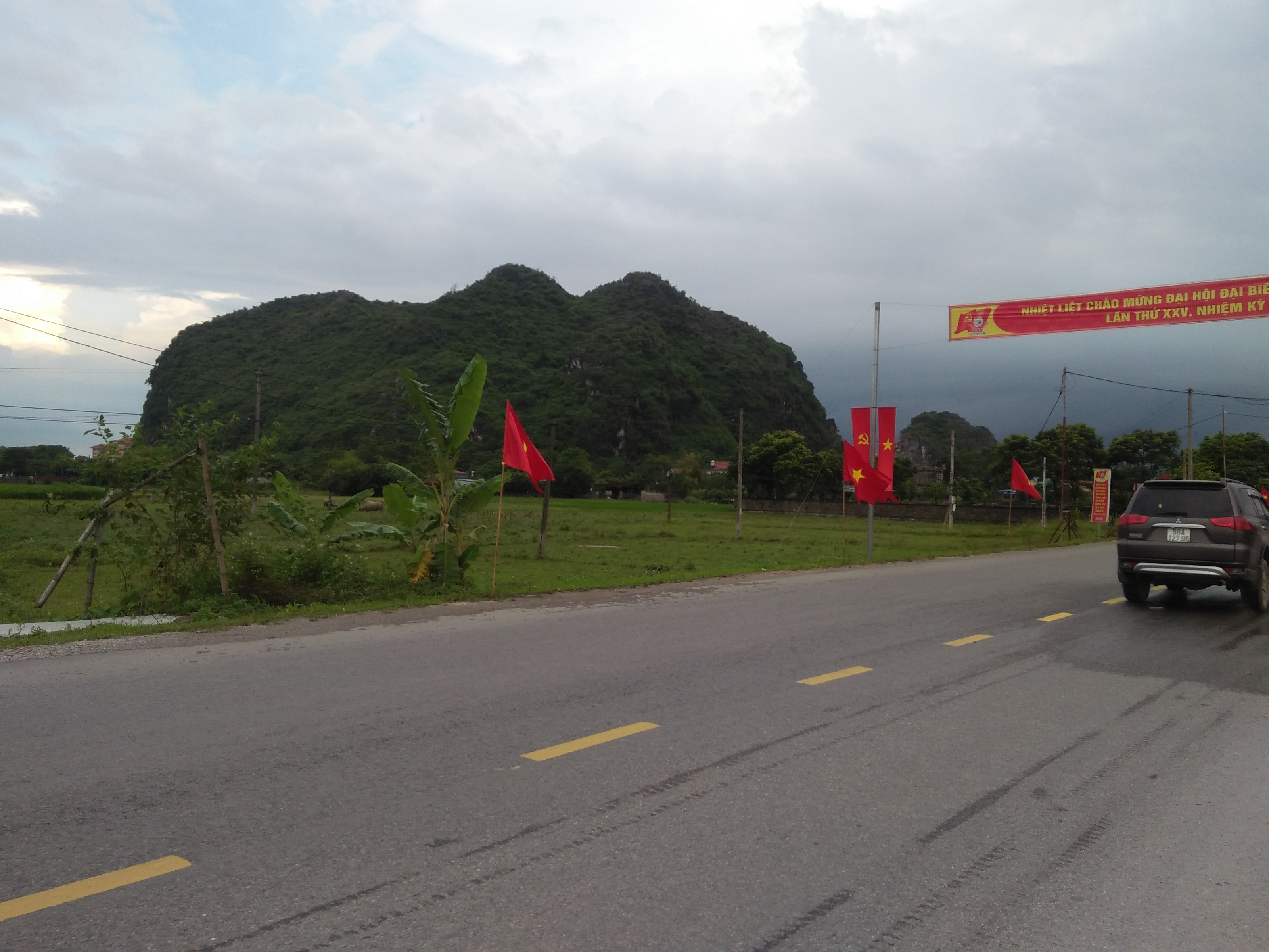 Núi Voi, Đồng Hỷ